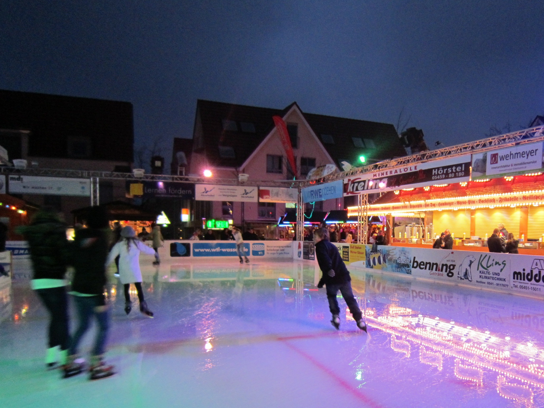 Ice Skating in Ibbenburen's city center at Christmas time (Ibb on ice)